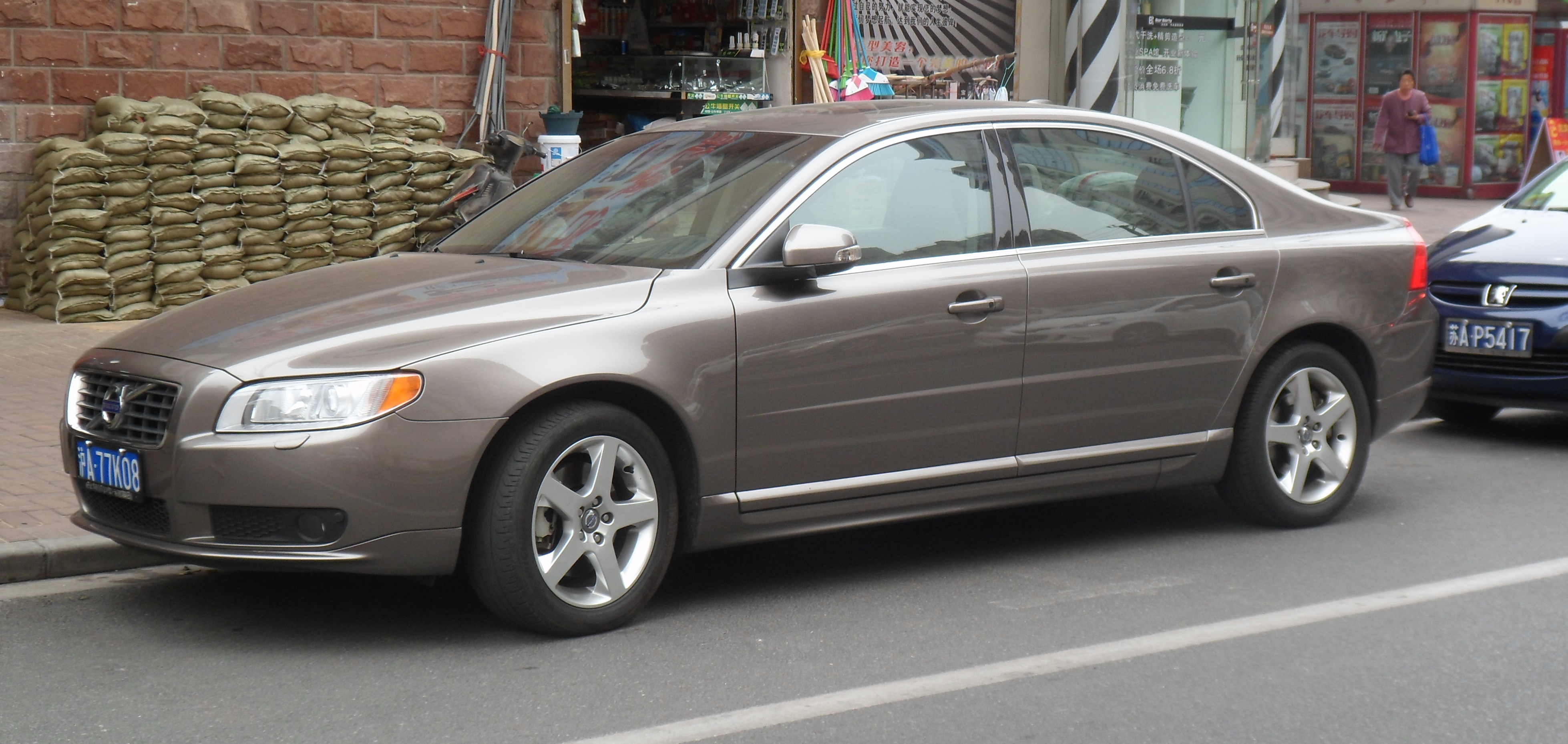 Volvo S80L AS photographed in Shanghai, China.